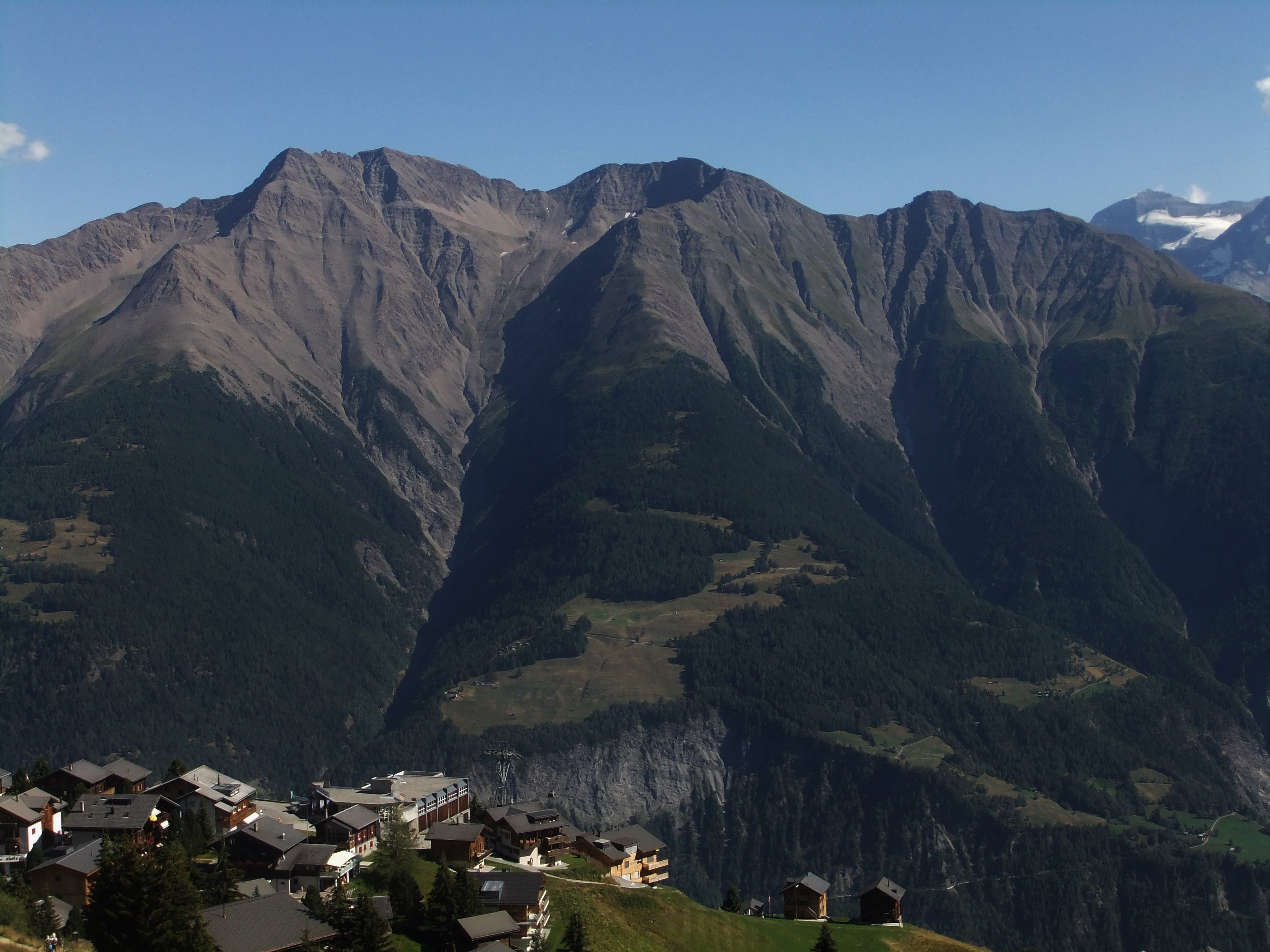 The alp, and former ski resort, of Tunetschalp above the town of Mörel-Filet in Switzerland, in a view taken from Riederalp in the opposite side of the valley